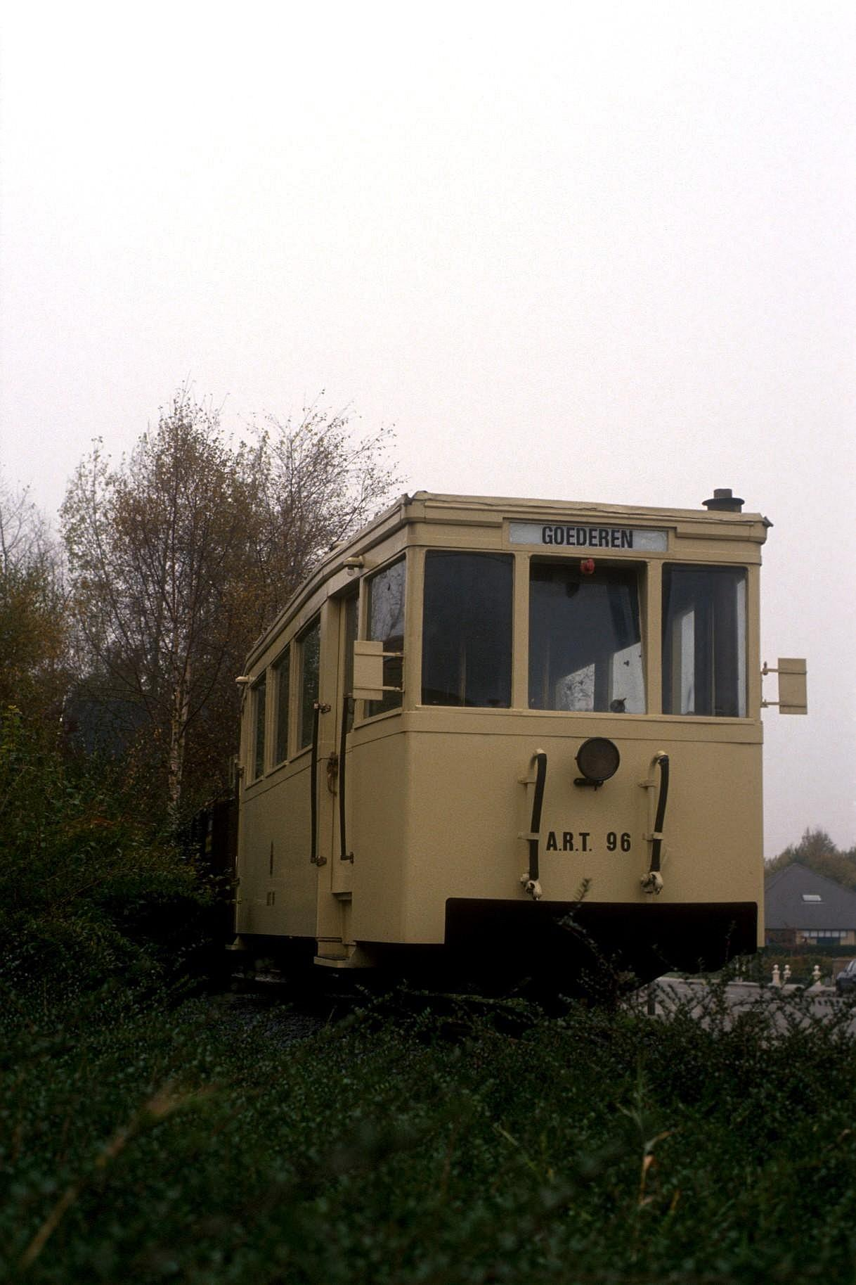 Keywords : SNCV, vicinal railways, rail, metre gauge, tram, train, goods, autorail, Koekelaere, Belgium